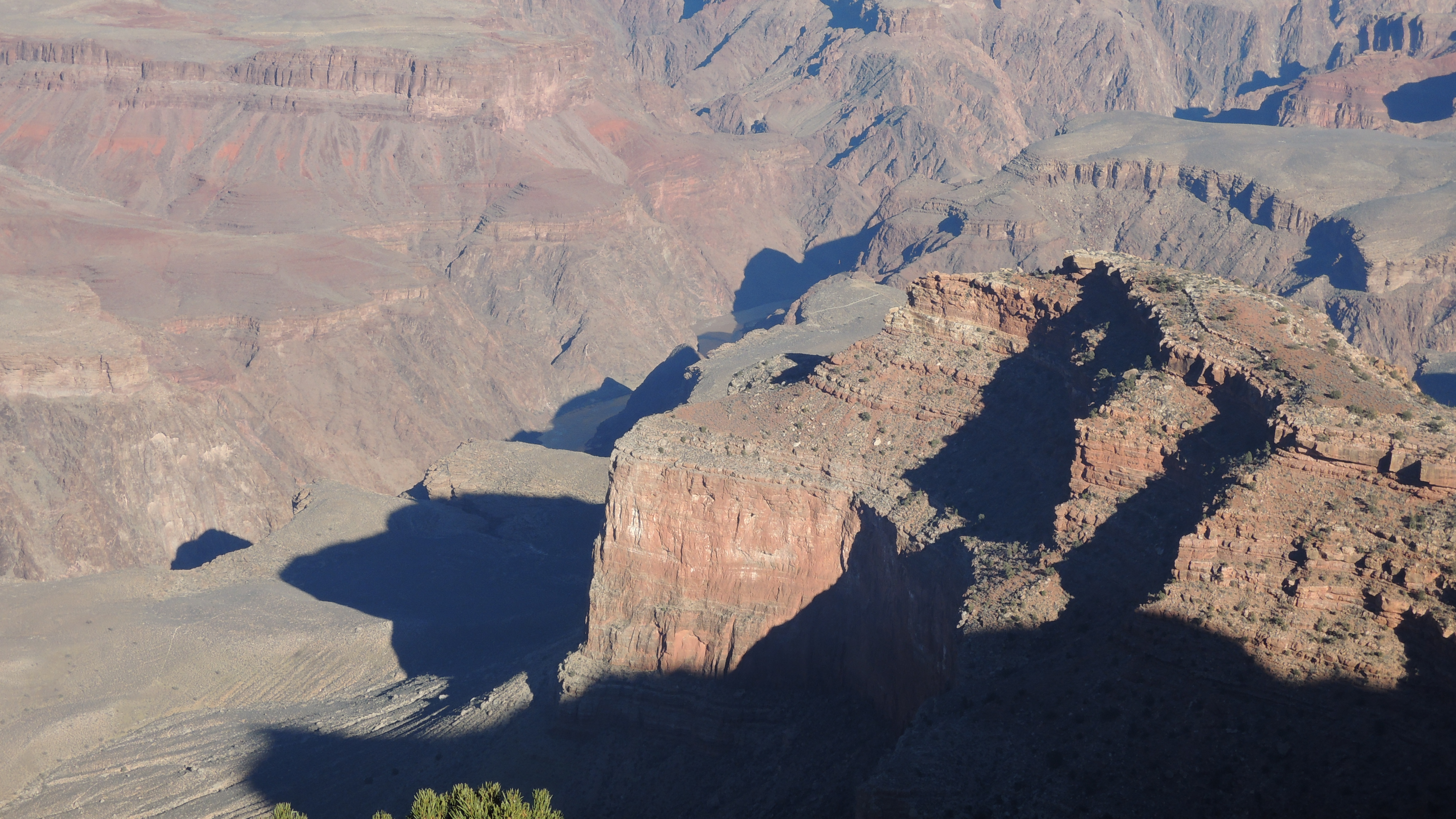 The Battleship Nest in the Grand Canyon - birthplace of Condor 350.